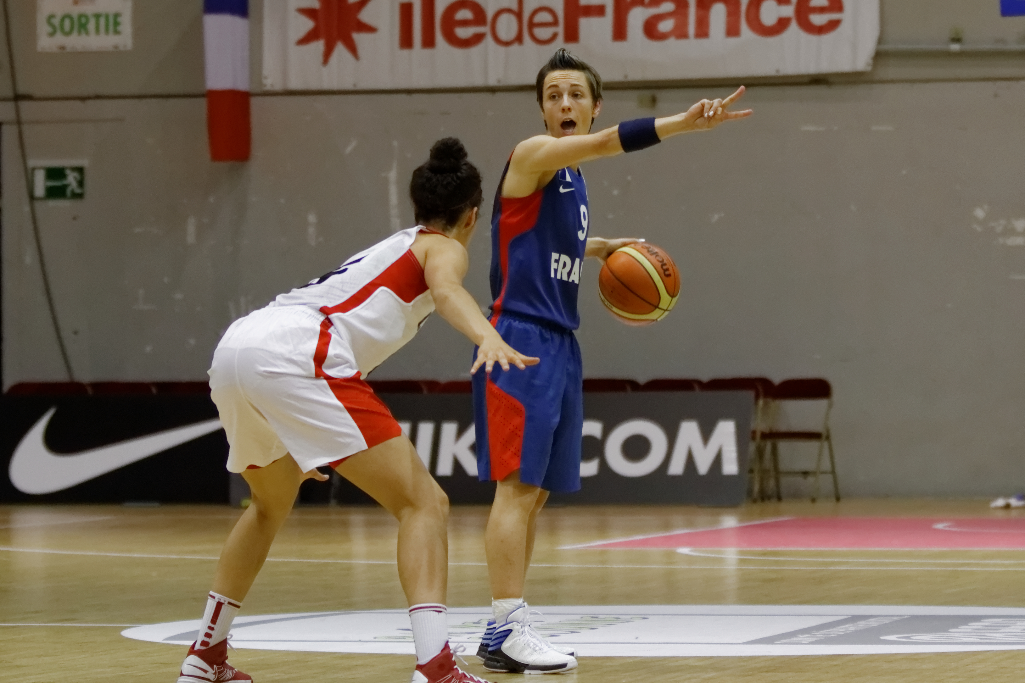 EuroEssonne, France - Canada, 7 June 2013.